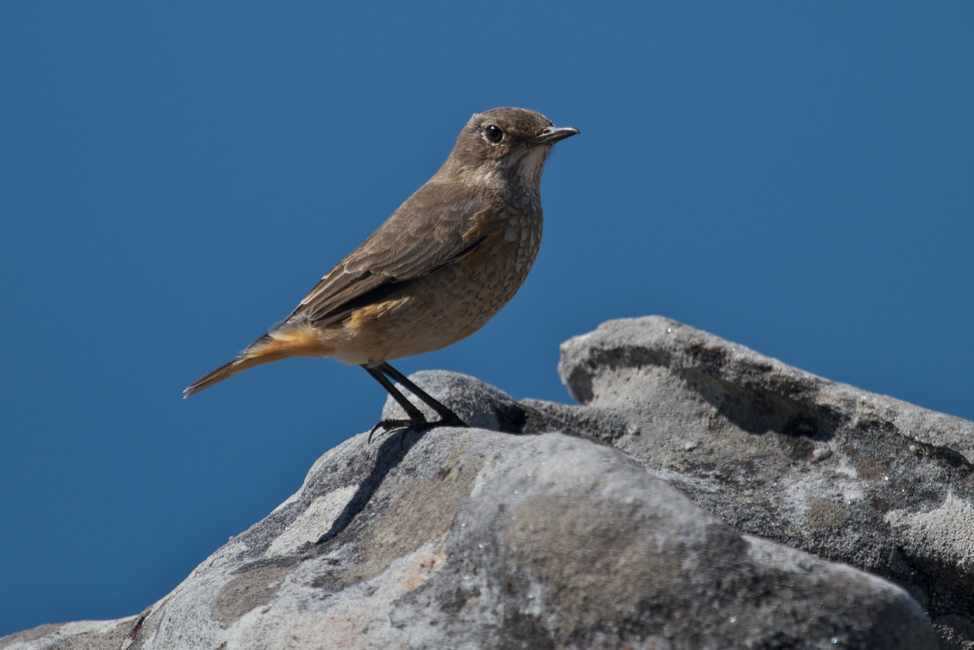 A female Sentinel Rock Thrush in Cape Town, Western Cape, South Africa.